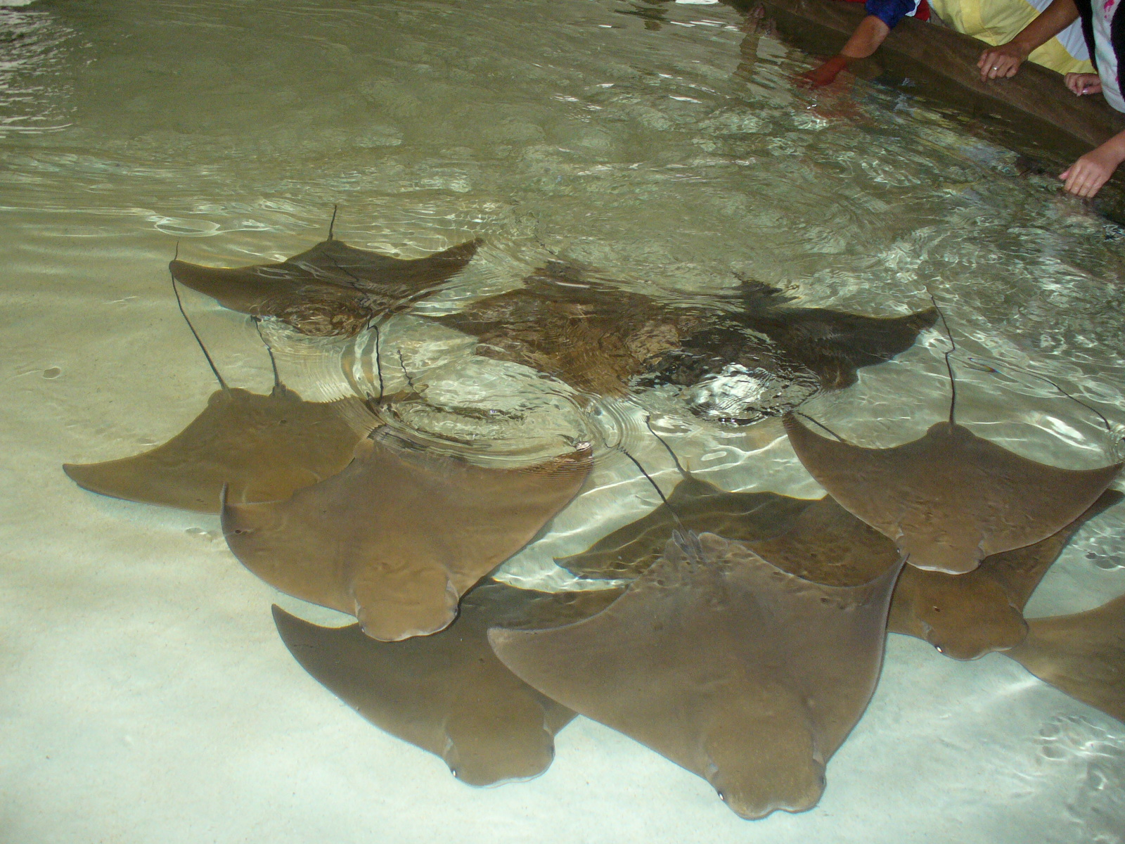 Stingrays in the Stingray Lagoon at John Ball Zoo, in Grand Rapids, Michigan.